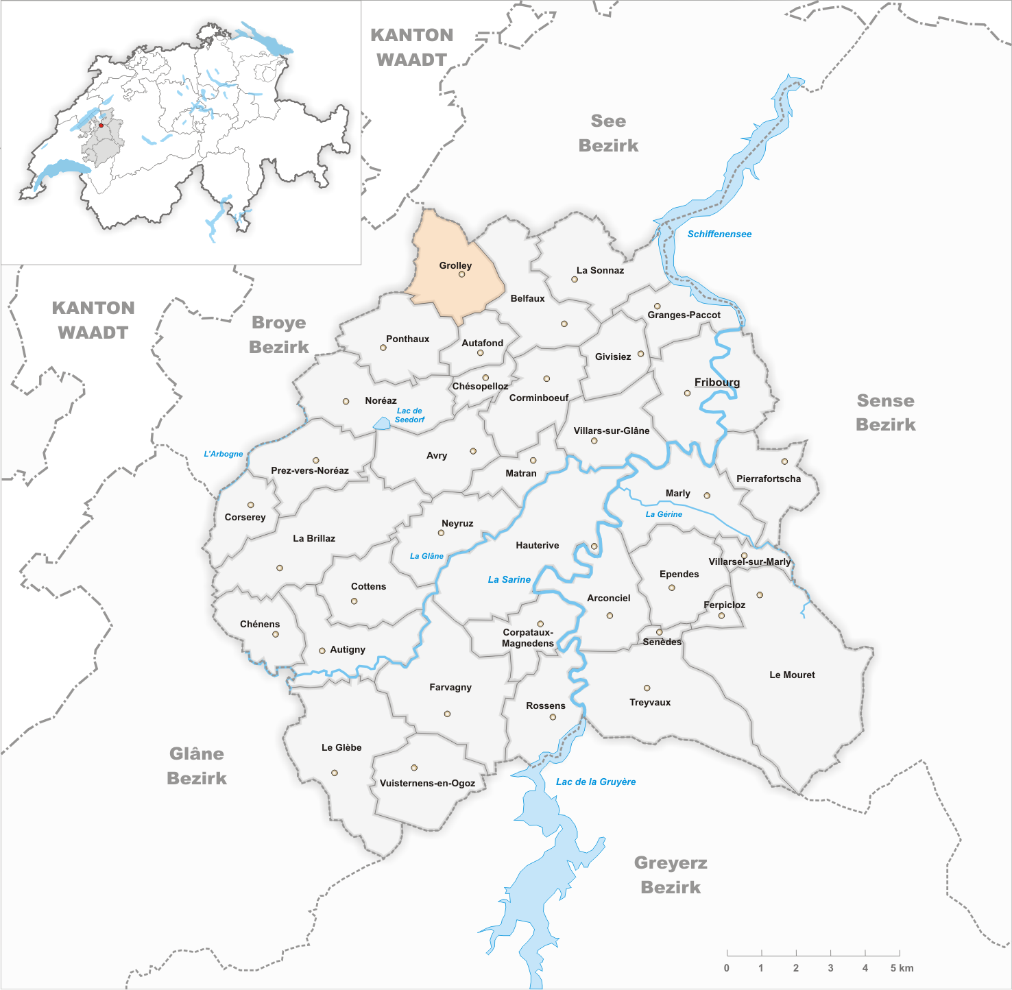 Municipality Grolley